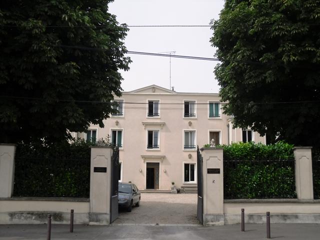 Chambourg Mansion in Longjumeau, Essonne, France